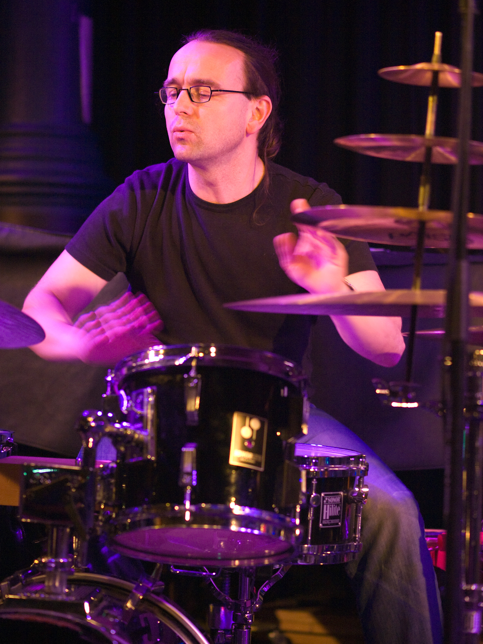 Lucas Niggli, Jazz drummer / percussionist , Picture taken in Jazz Club Unterfahrt, Munich/Bavaria